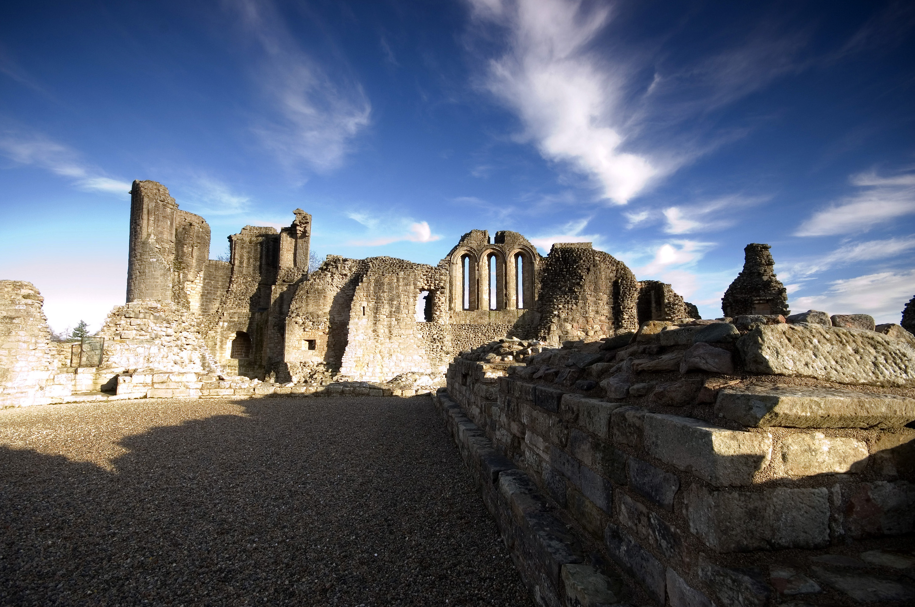 Kildrummy Castle, Scotland, by B. A. Watson.